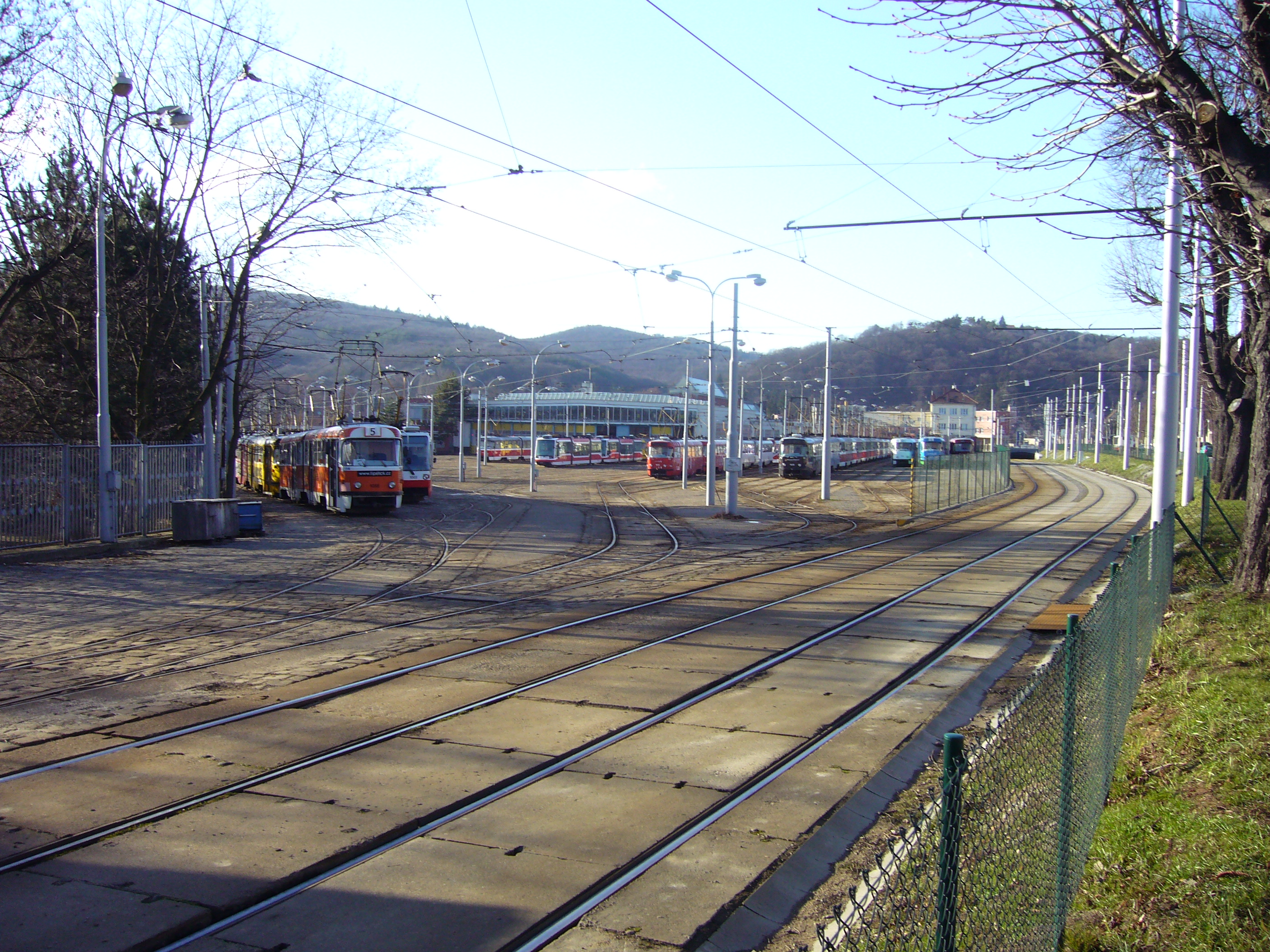 Tram depot in Pisárky seen from Hlinky Street.